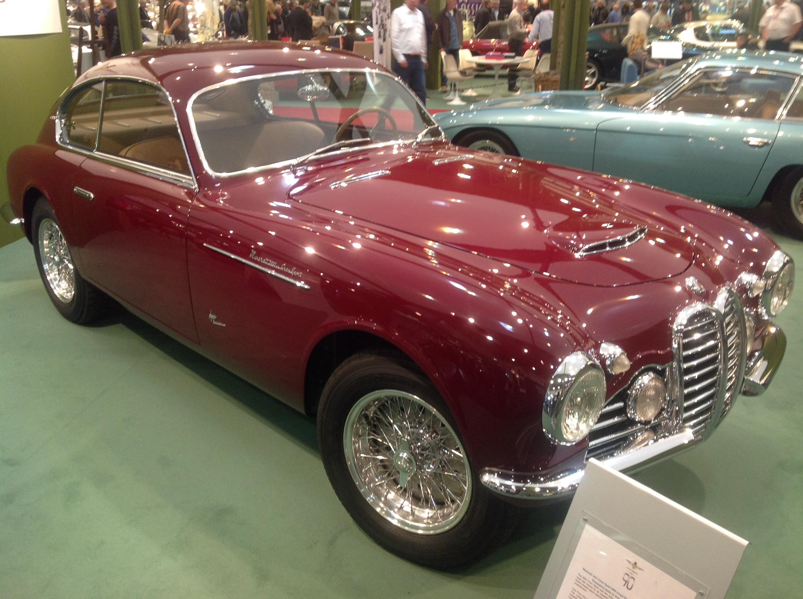 I liked this for its' compactness and detailing. My favourite A6G 2000 is the Zagato version.